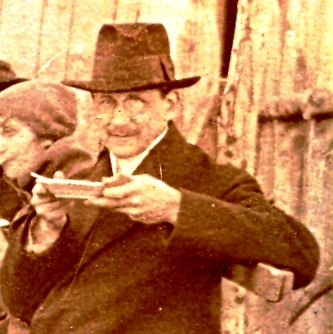 Prof. Venelin Ganev on a larger photo featururing also Dora Gabe and Prof. Boyan Penev